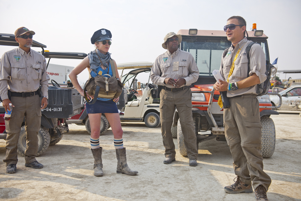 Aaron Curtis (right), who leads the Bureau of Land Management’s (BLM) Burning Man Compliance team, gives that morning’s compliance teams their daily assignments. Curtis, who is from the Utah State Office of the BLM, has 7 compliance teams, made up of one BLM and one participant volunteer, to inspect nearly 68,000 burners and vendors to ensure compliance with both environmental concerns and vendor compliance. Curtis likens his teams work as, "being Park Rangers in the craziest campground in the world." The compliance teams deal with issues surrounding environmental concerns, such as grey water, black water, and oil or gas spills on the playa to ensuring that vendors have the proper permits to be conducting business at the event. Curtis deploys his teams with a “divide and conquer” philosophy. This is the first year that members of the Burning Man community have actively integrated with the BLM compliance teams. Each team member has been provided side-by-side training with one another in preparation for their monitoring duties.